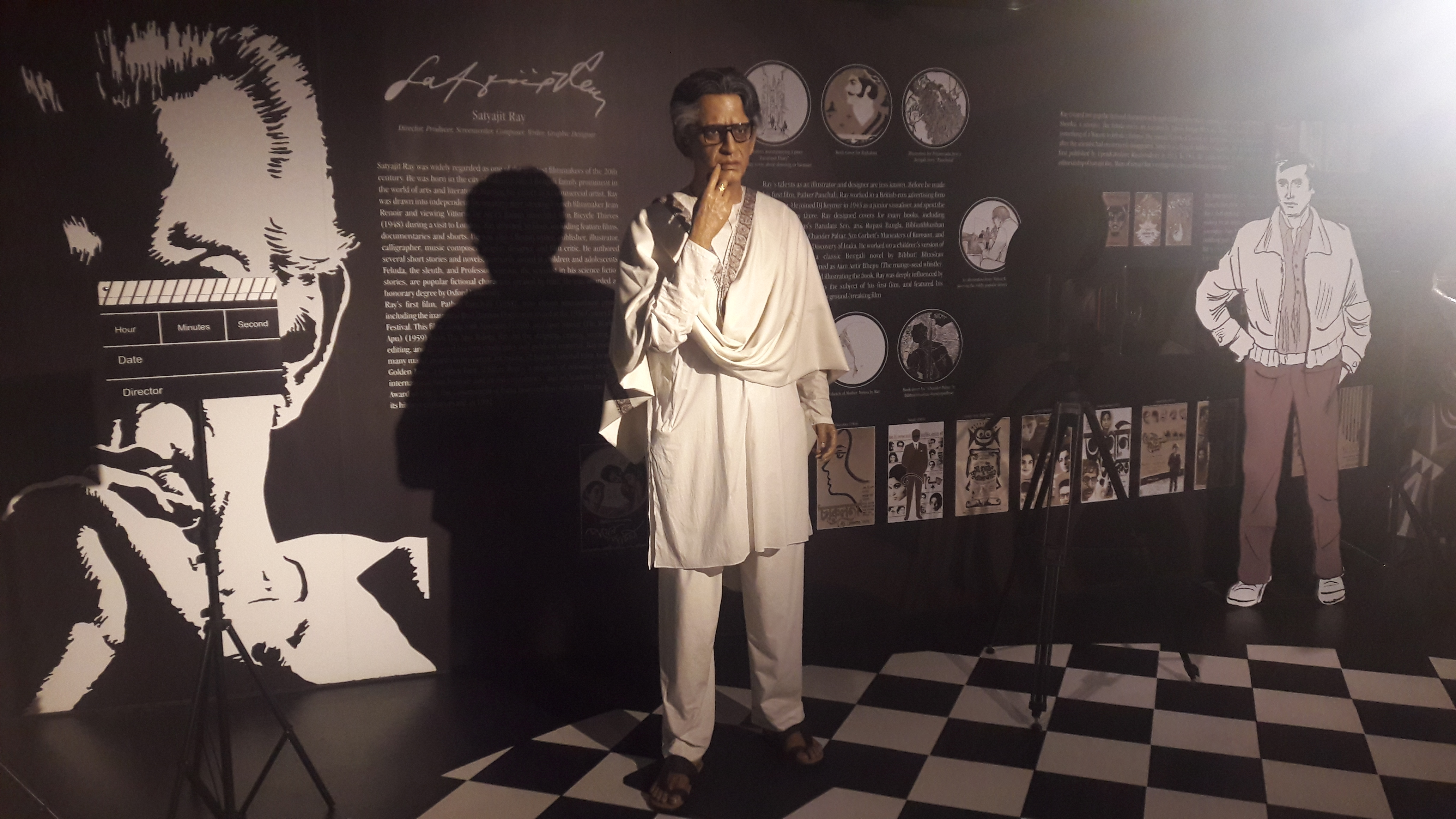 Satyajit Ray at Mother's Wax Museum, Calcutta